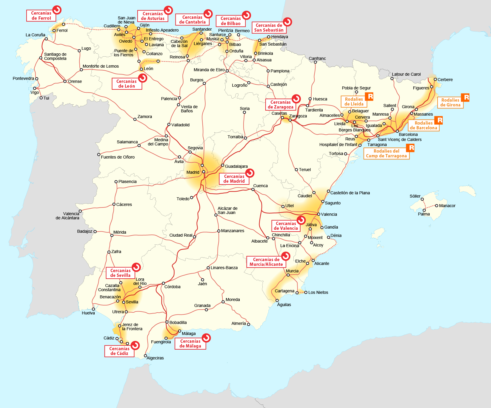 Map of Cercania systems in Spain